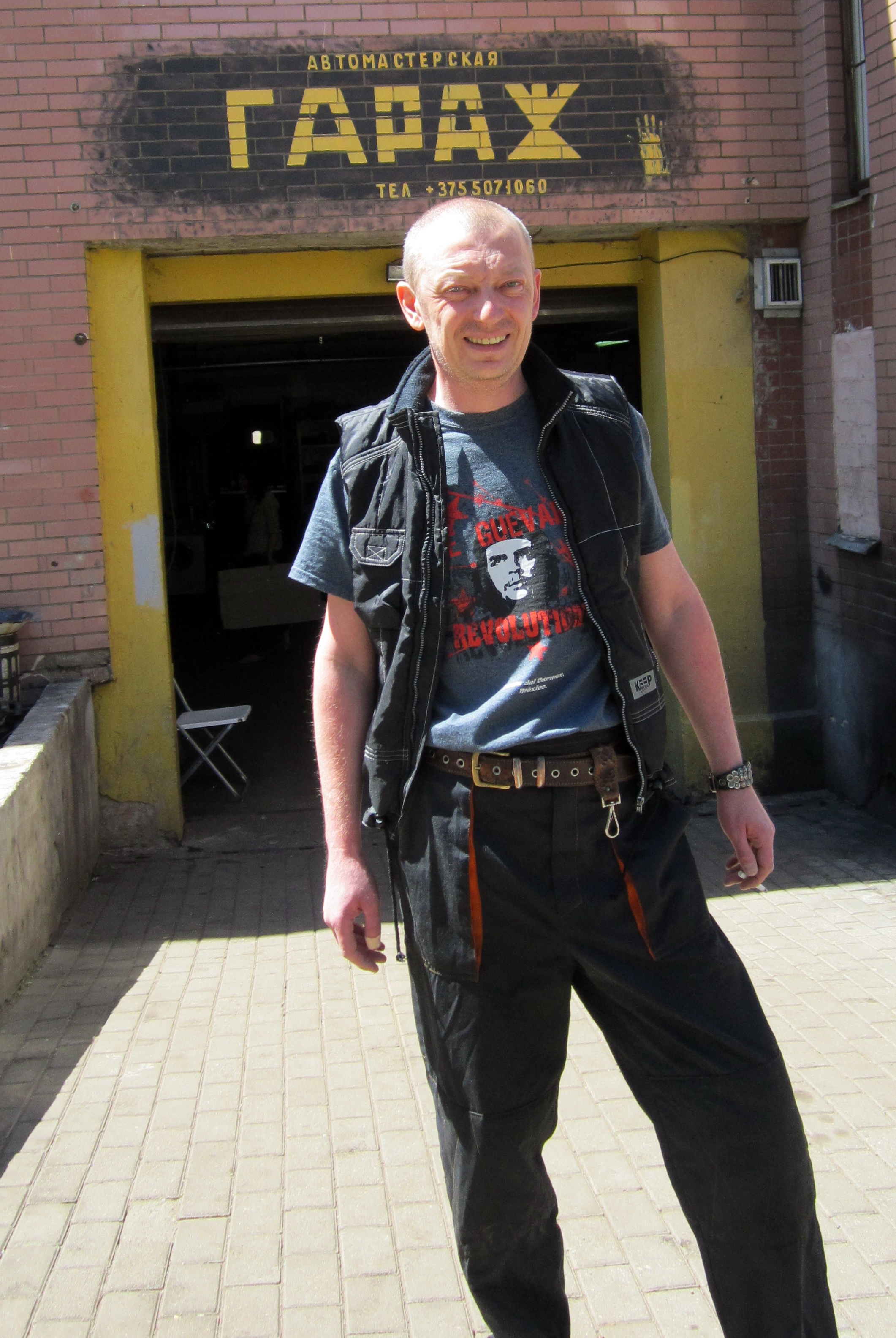 Alexander Kulinkovich posing behind the scenes of "GaraSh" movie in Minsk, Belarus